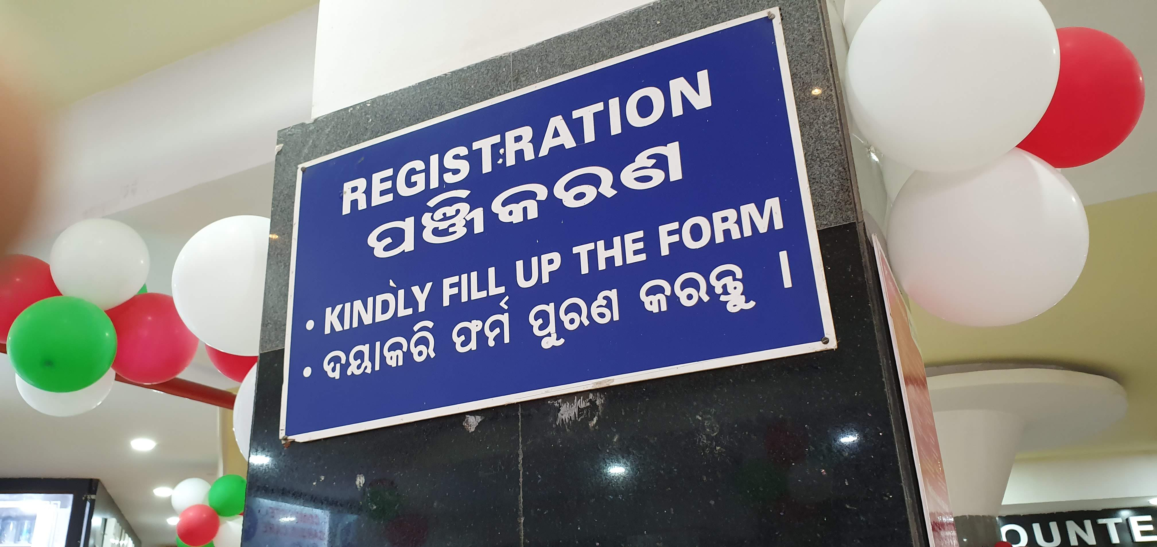 Bilingual signboard for Registration at a Hospital in Bhubaneswar